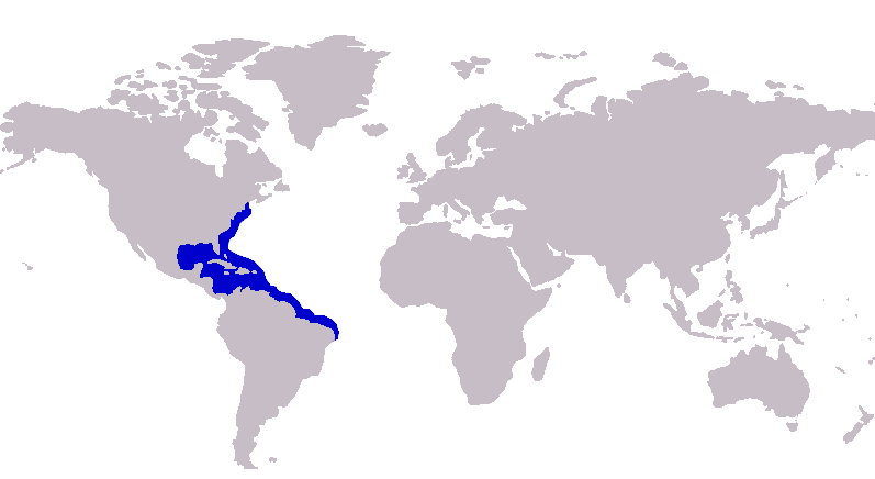 Distribution of yellow jack, Carangoides bartholomaei using map based on GDFL image